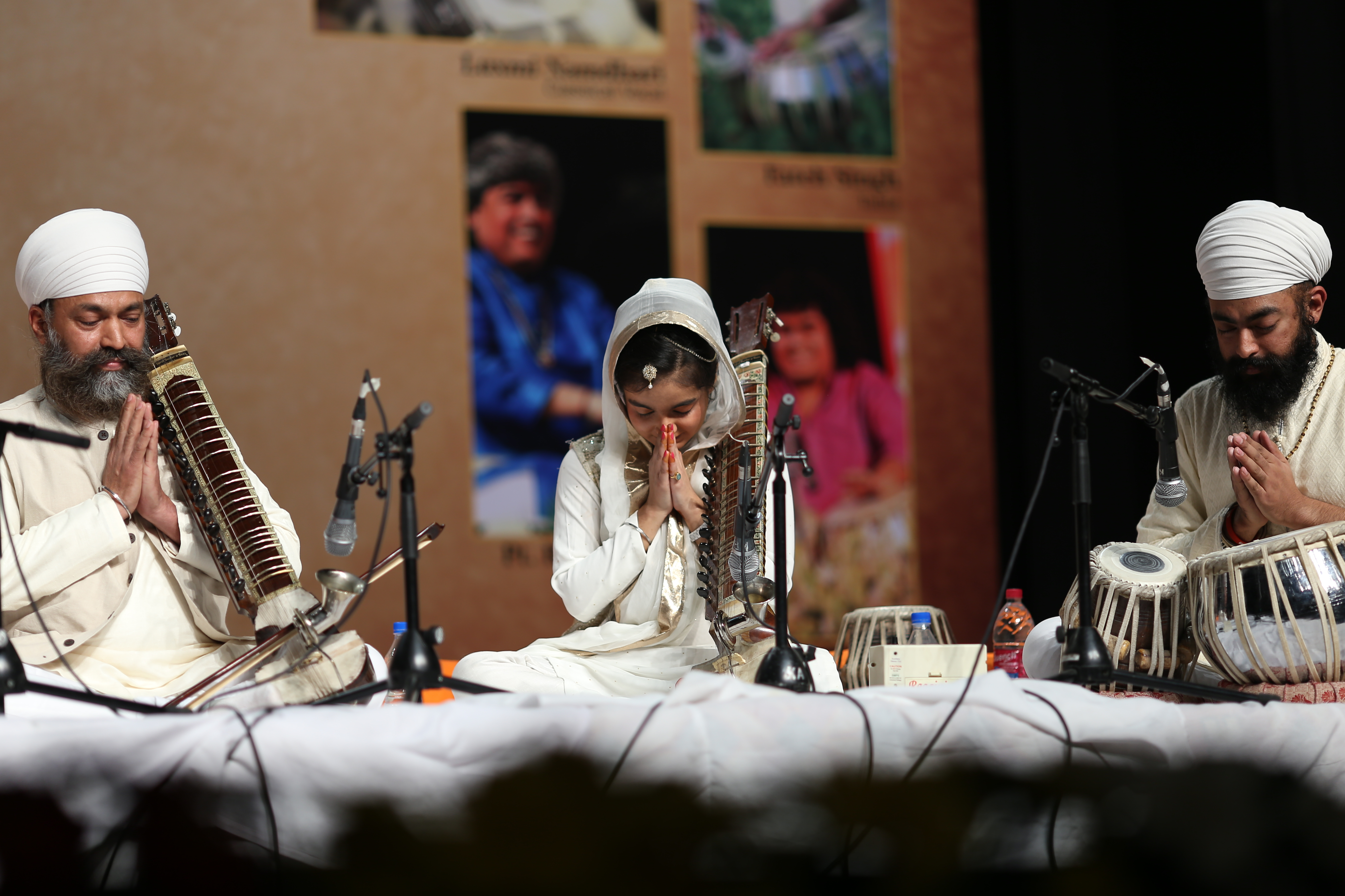 Ustad Baljit Singh with his daughter Luxmi Namdhari and his son Fateh Singh performing at Guru Sangeet Festival 2016